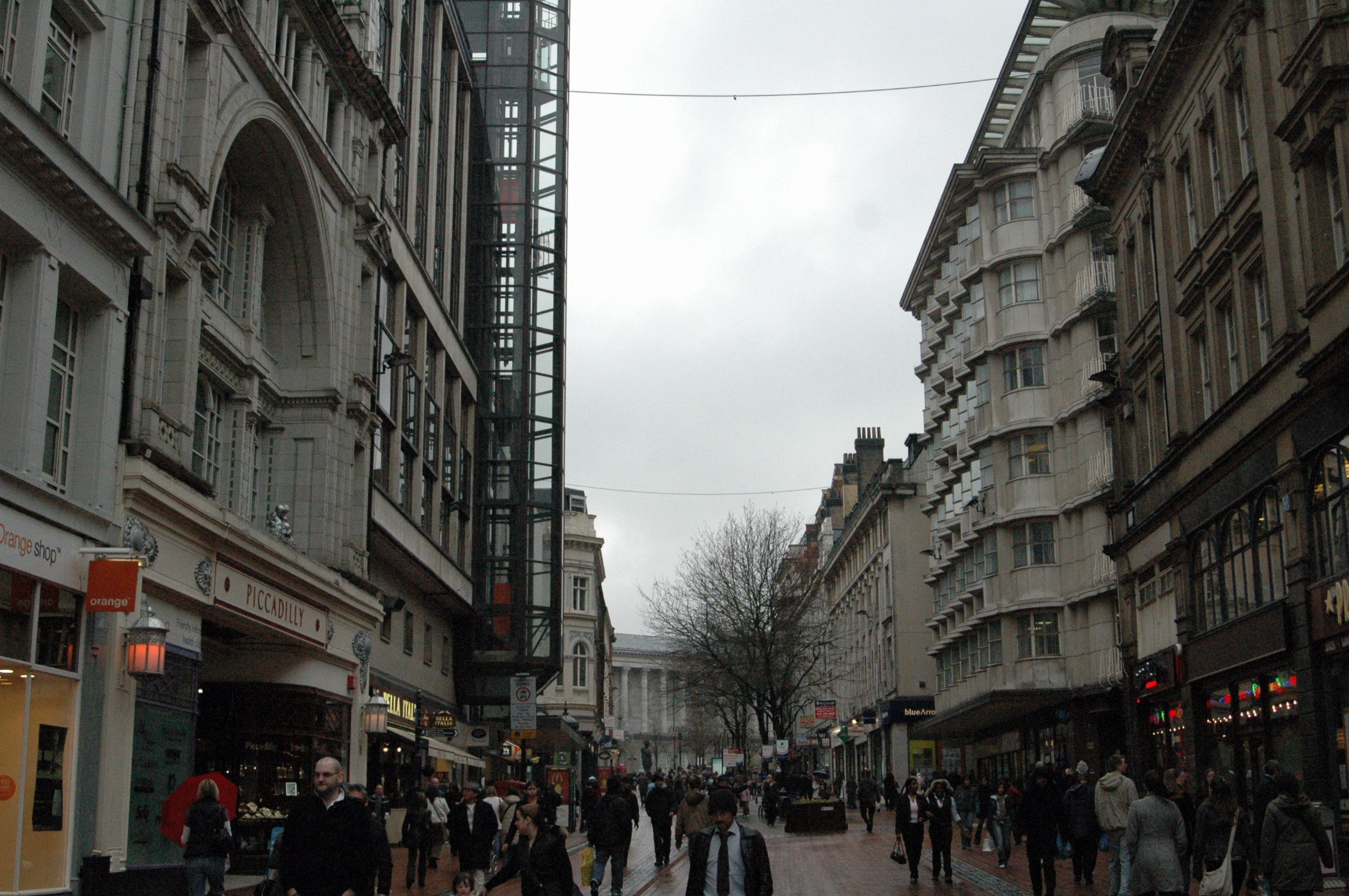 New Street in Birmingham, England, UK looking towards Victoria Square and the Town Hall. The lift on the side of the Charters Building is on the left of the picture.